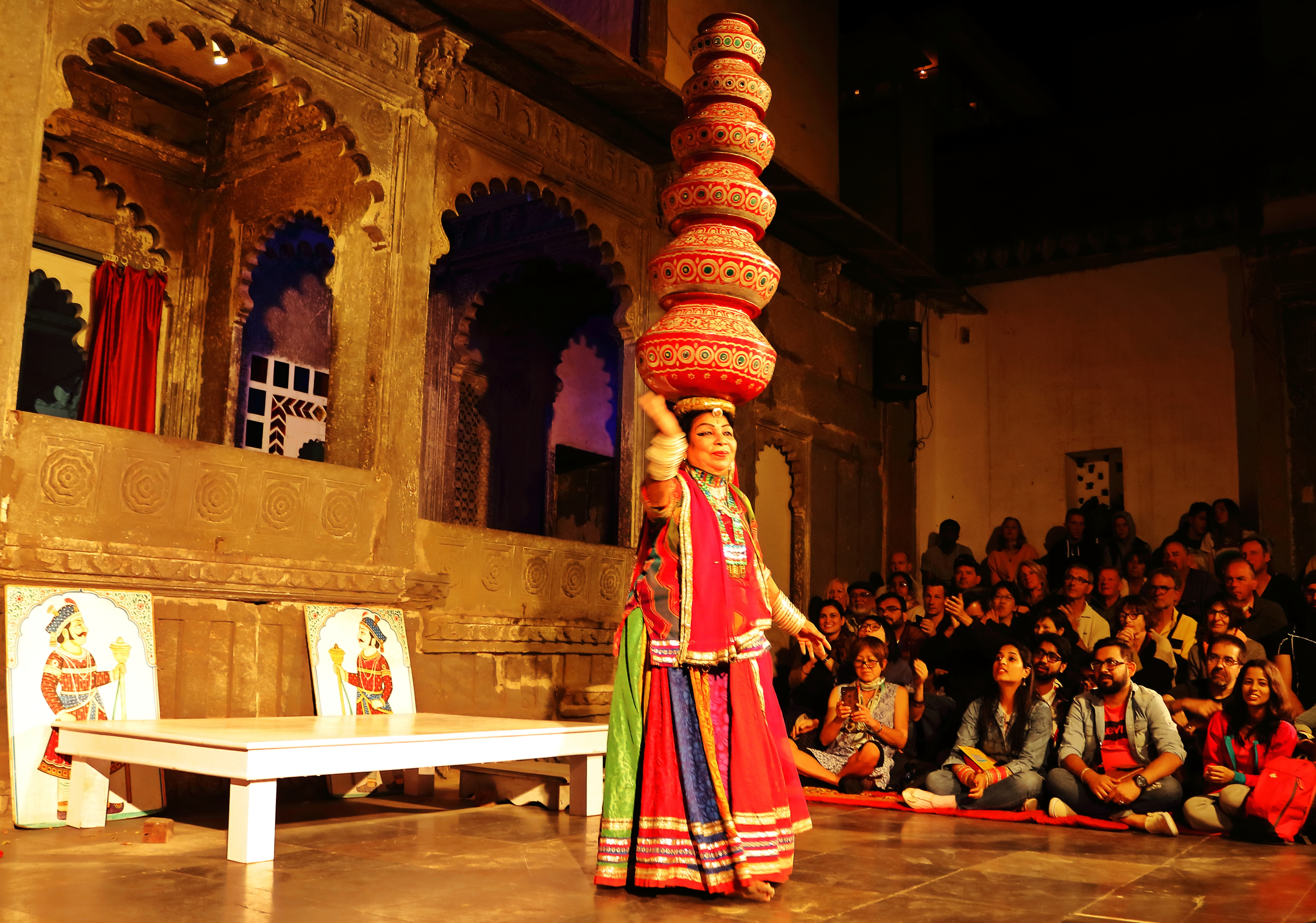 The dance involves men/women balancing eight to nine brass pitchers or earthen pots on their head as they dance and twirl with their feet on the perimeter of a brass plate or on the top of a glass. Because of its high level of difficulty and complexity, it takes years for the performer to master the dance form. The inspiration of this dance format seems to come from the rural life of Rajasthan. Being a state substantially covered with desert, there has never been an abundance of water resources here. Earlier, womenfolk of the villages were required to fetch water from common sources like wells. They used to carry multiple clay pots simultaneously to save their time since the path in villages was used to be filled with thorns. It pretty much clears up how the whole chore would have inspired a dance format which has now received international recognition. This photo has been taken in the country: India